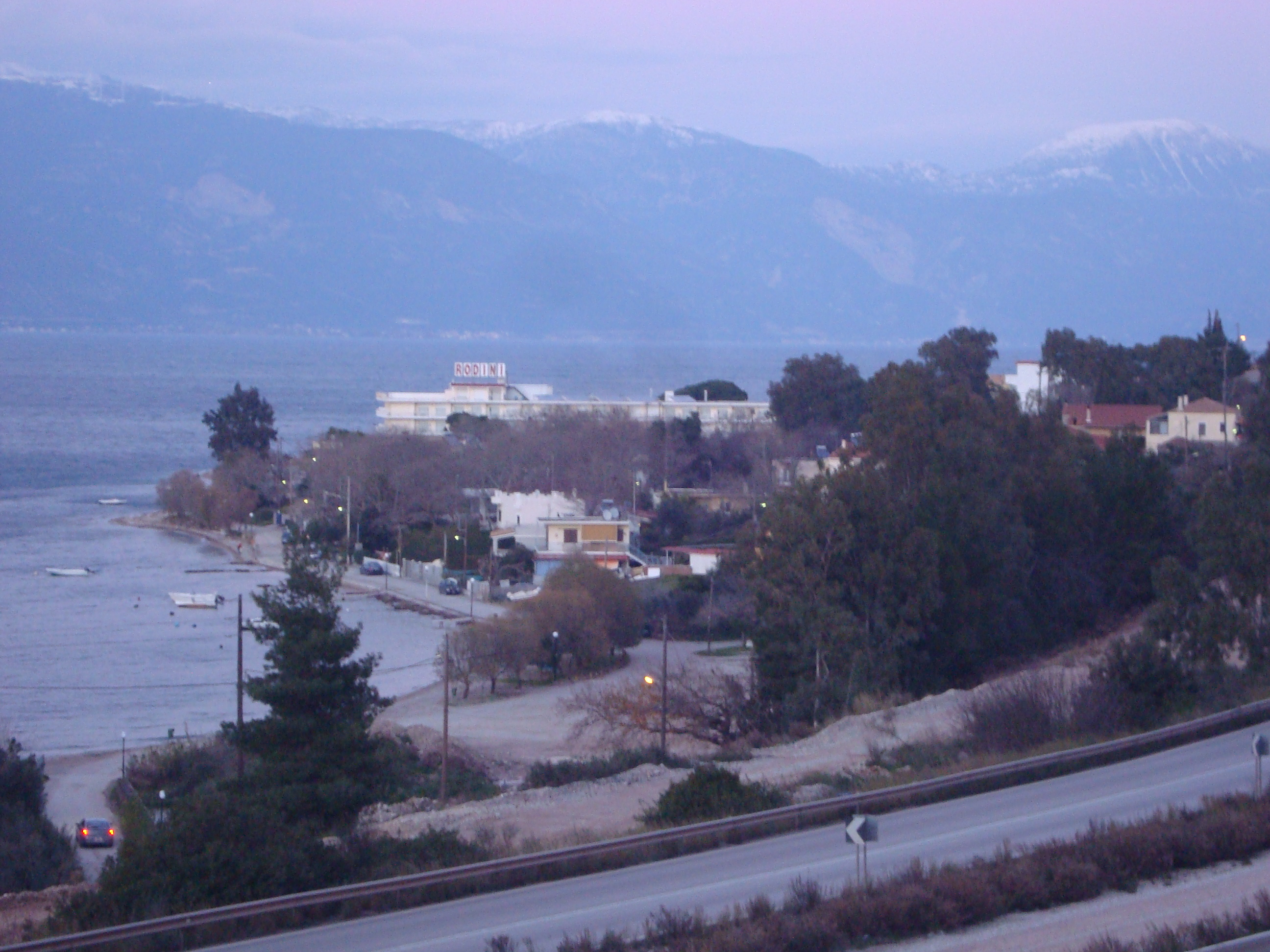 Kato Rodini village in Achaia